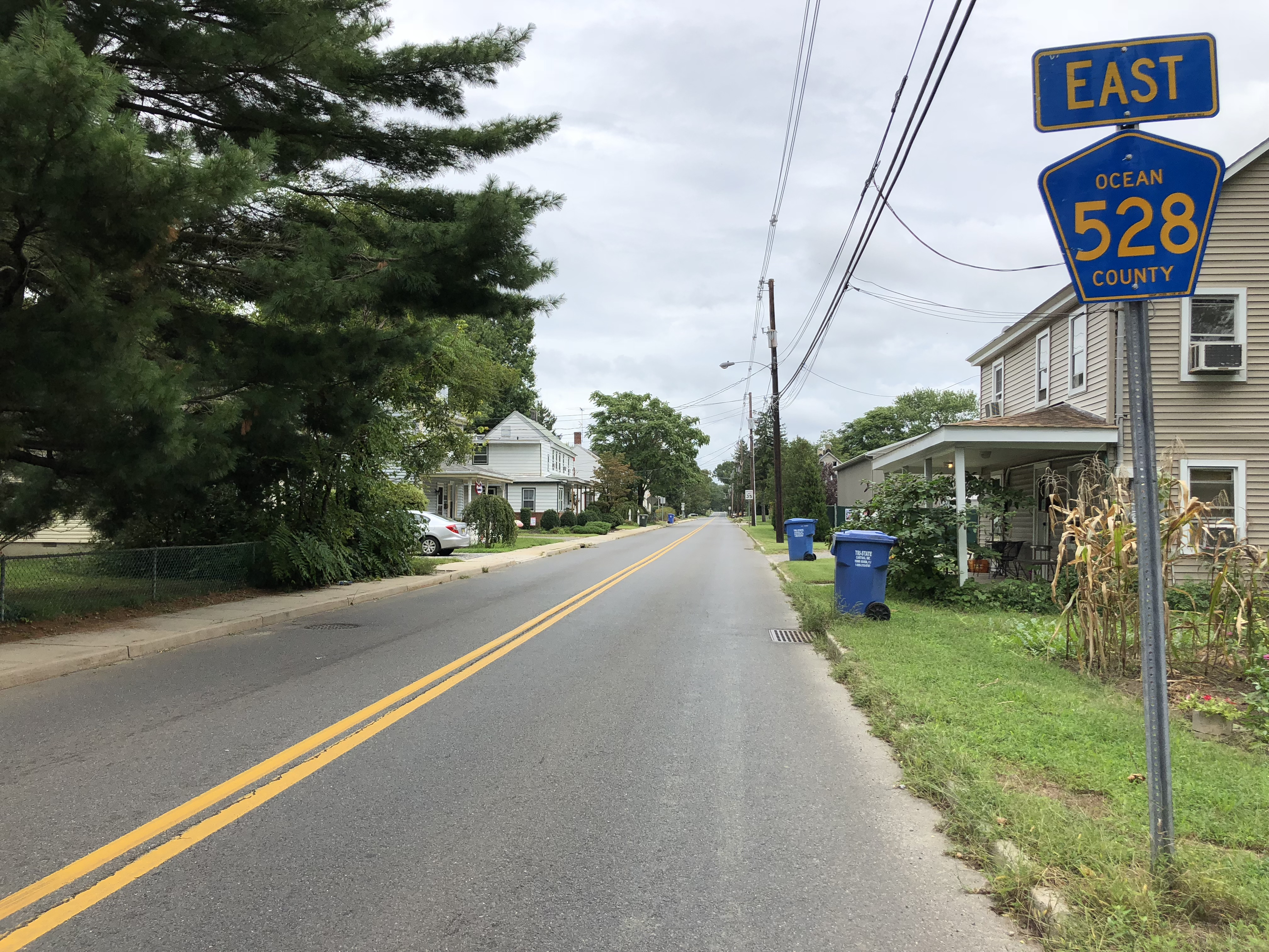 View east along Ocean County Route 528 (Lakewood Road) just east of Ocean County Route 10 (Main Street) in Plumsted Township, Ocean County, New Jersey